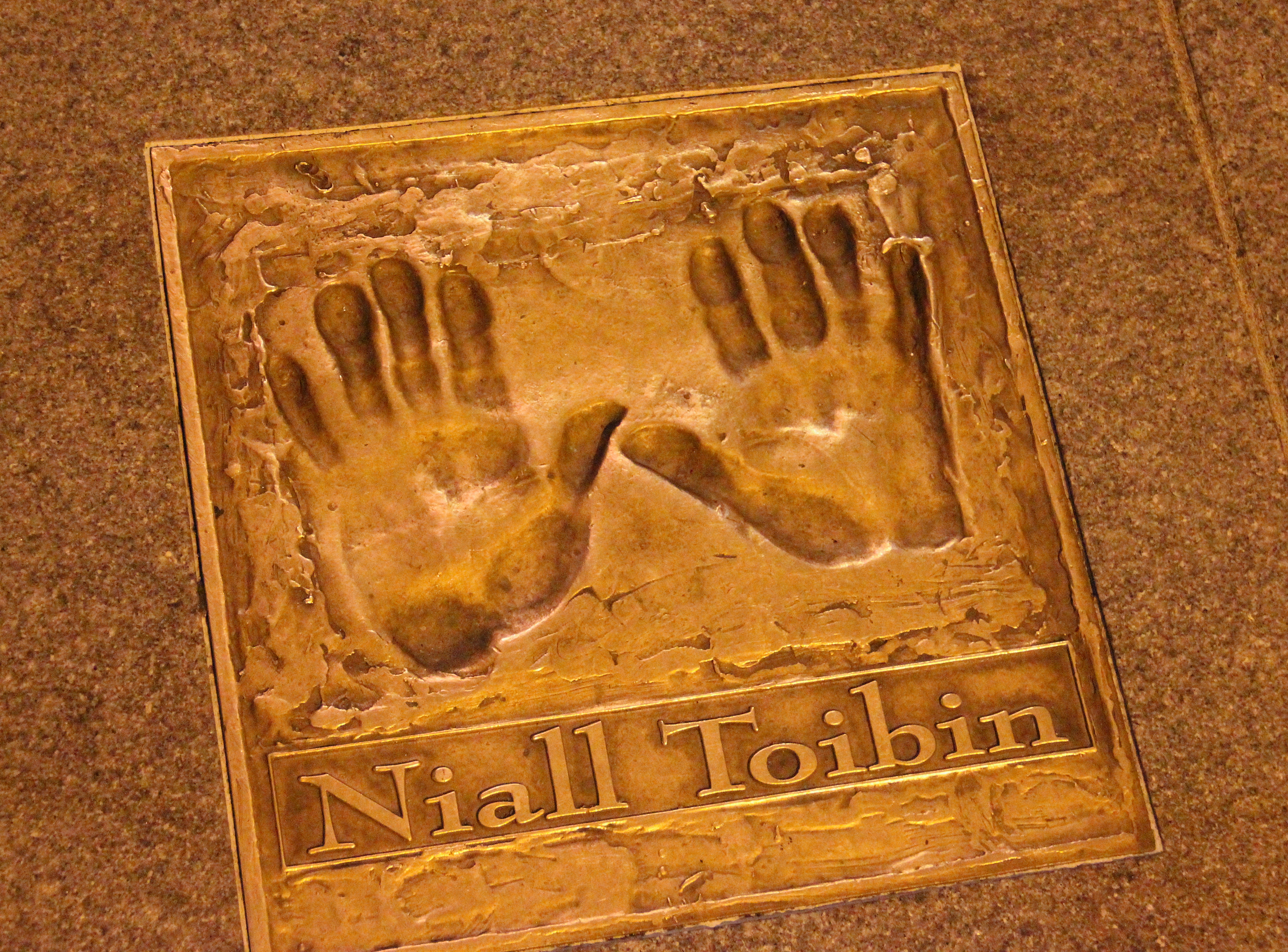 Handprint of actor Niall Tóibín (born 1929) in front of the Gaiety Theatre in Dublin, Ireland.